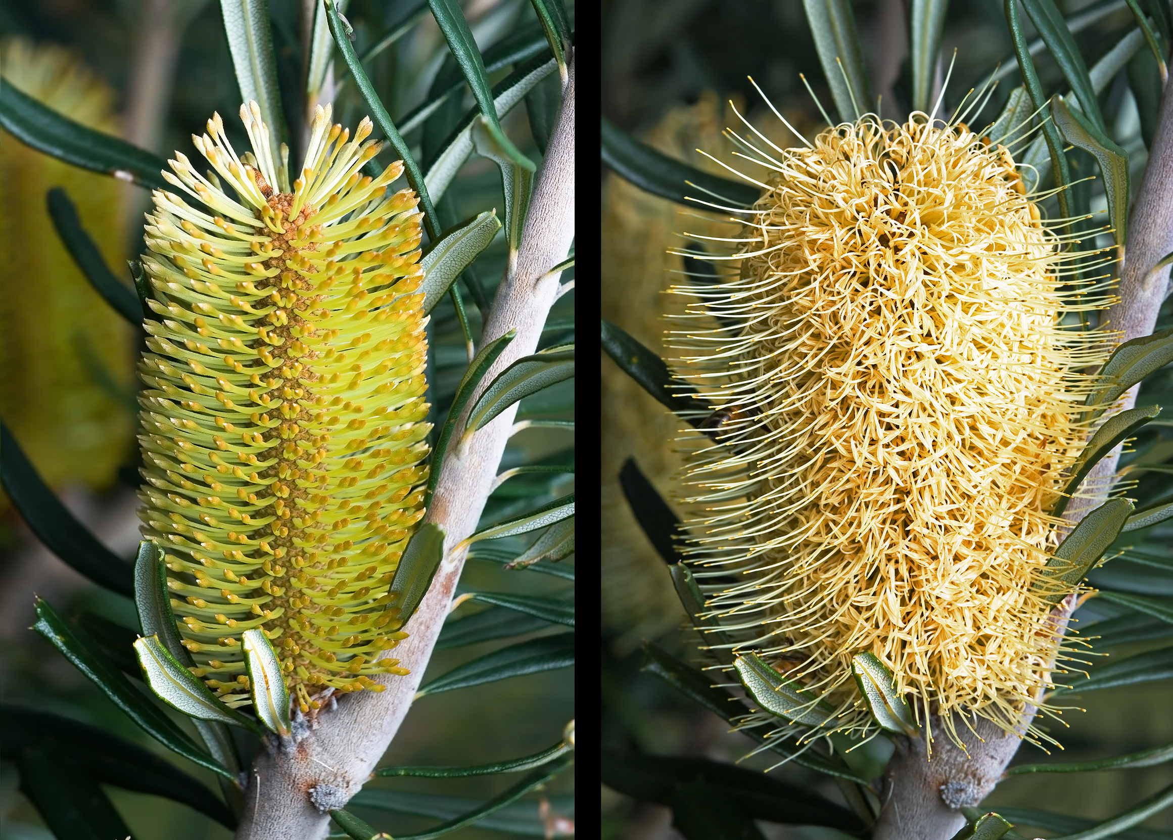 Silver Banksia (Banksia marginata), Immature Spike Left, Mature Spike Right Camera data Camera Canon EOS 400D Lens Tamron EF 180mm f3.5 1:1 Macro Focal length 180 mm Aperture f/10 Exposure time 1/200 s Sensivity ISO 100